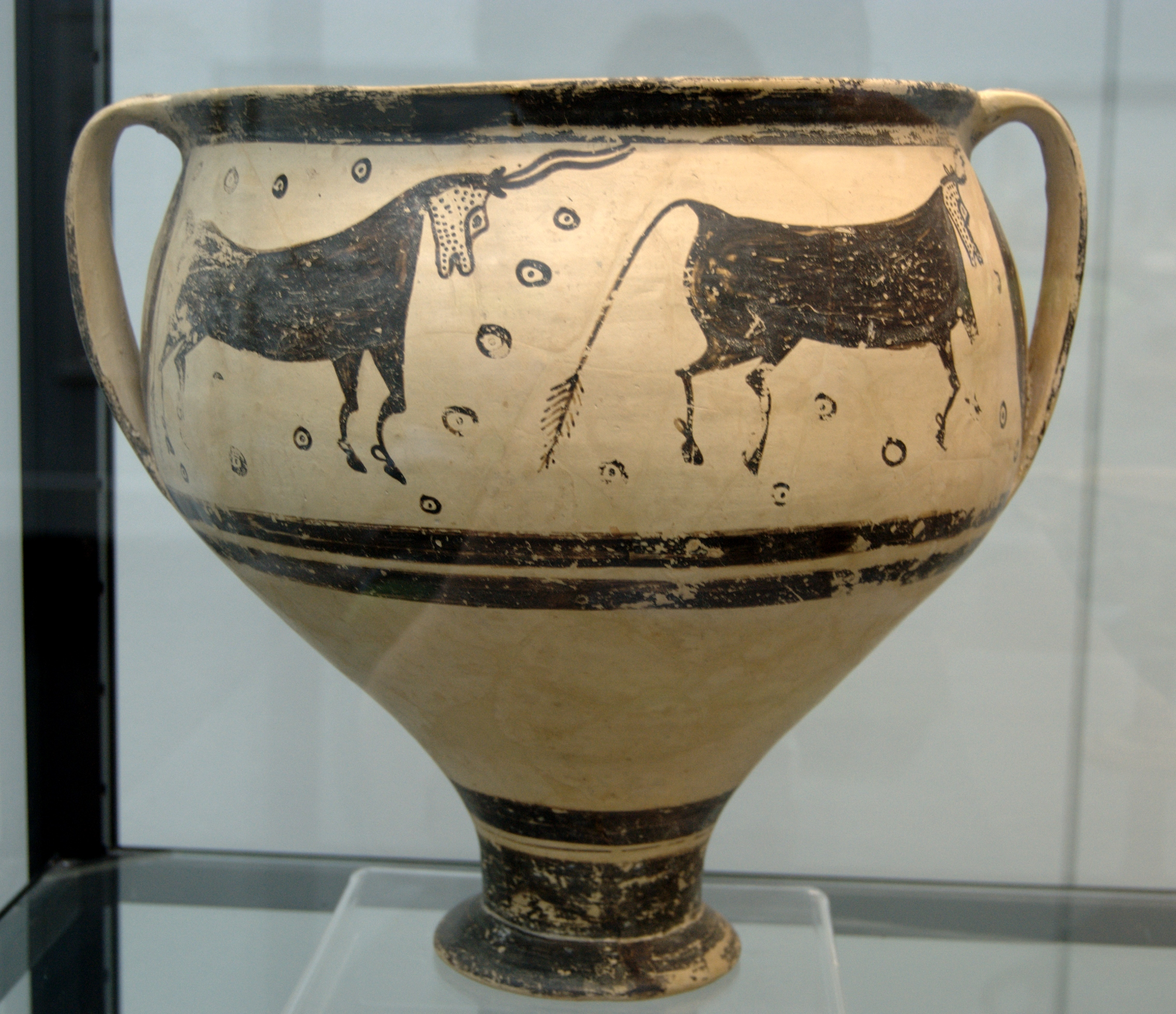 Late Mycenaean style, 1300–1200 BC.